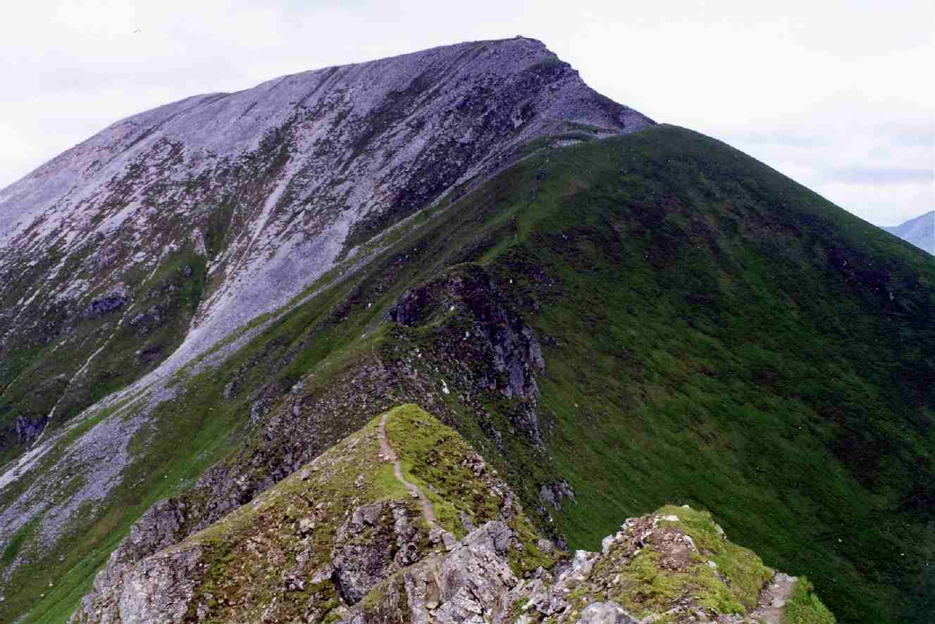 Personal picture taken by Mick Knapton in August 1994